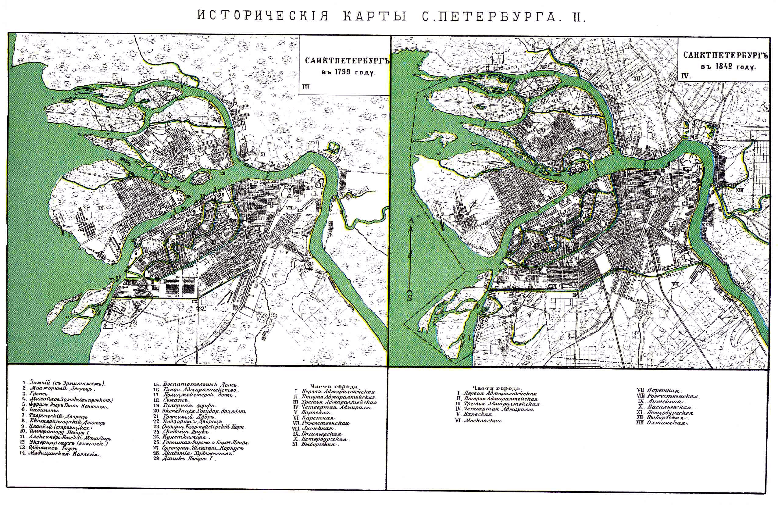 Illustration from Brockhaus and Efron Encyclopedic Dictionary (1890—1907)